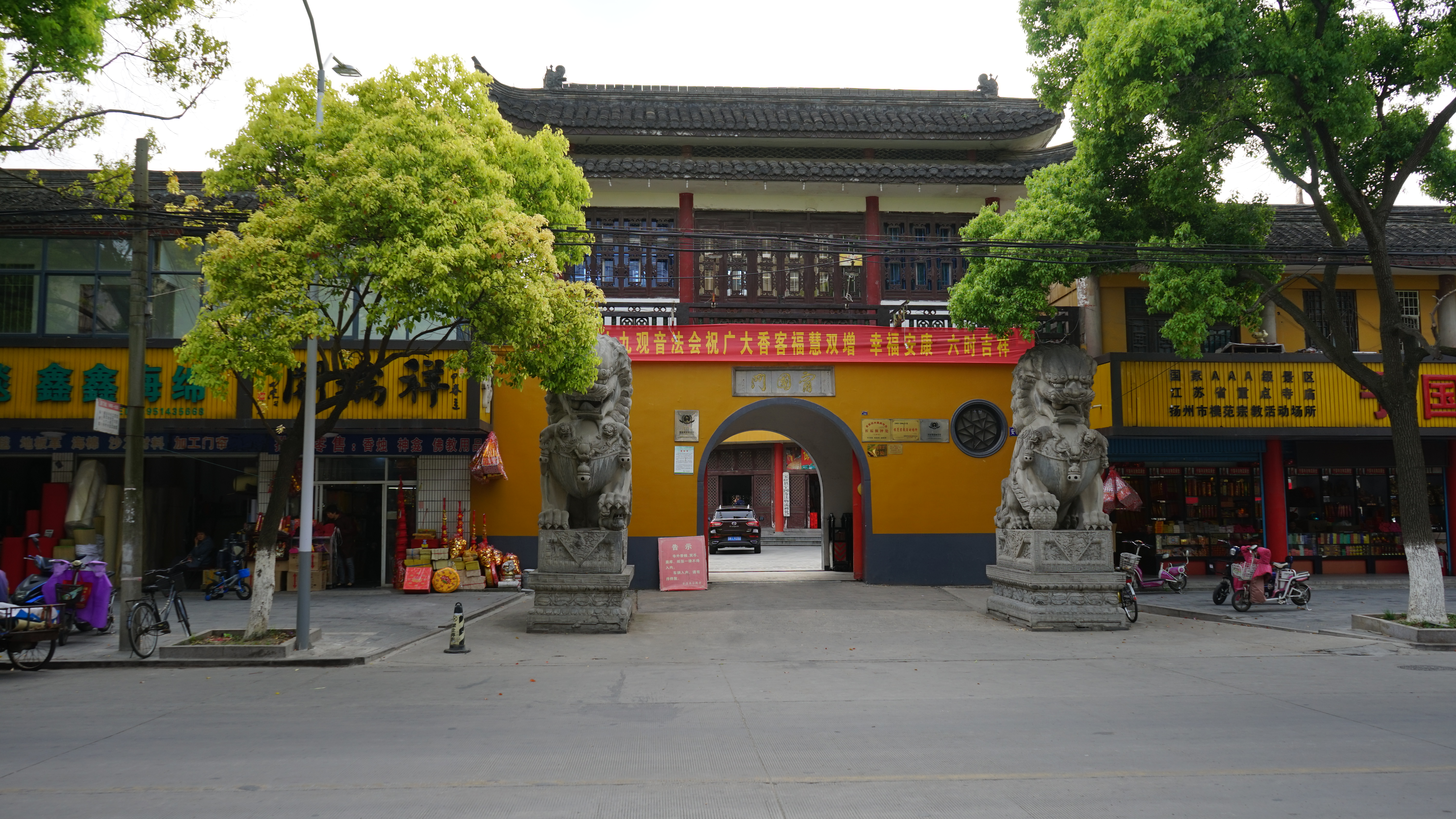 Gate of Ningguo Temple, Baoying